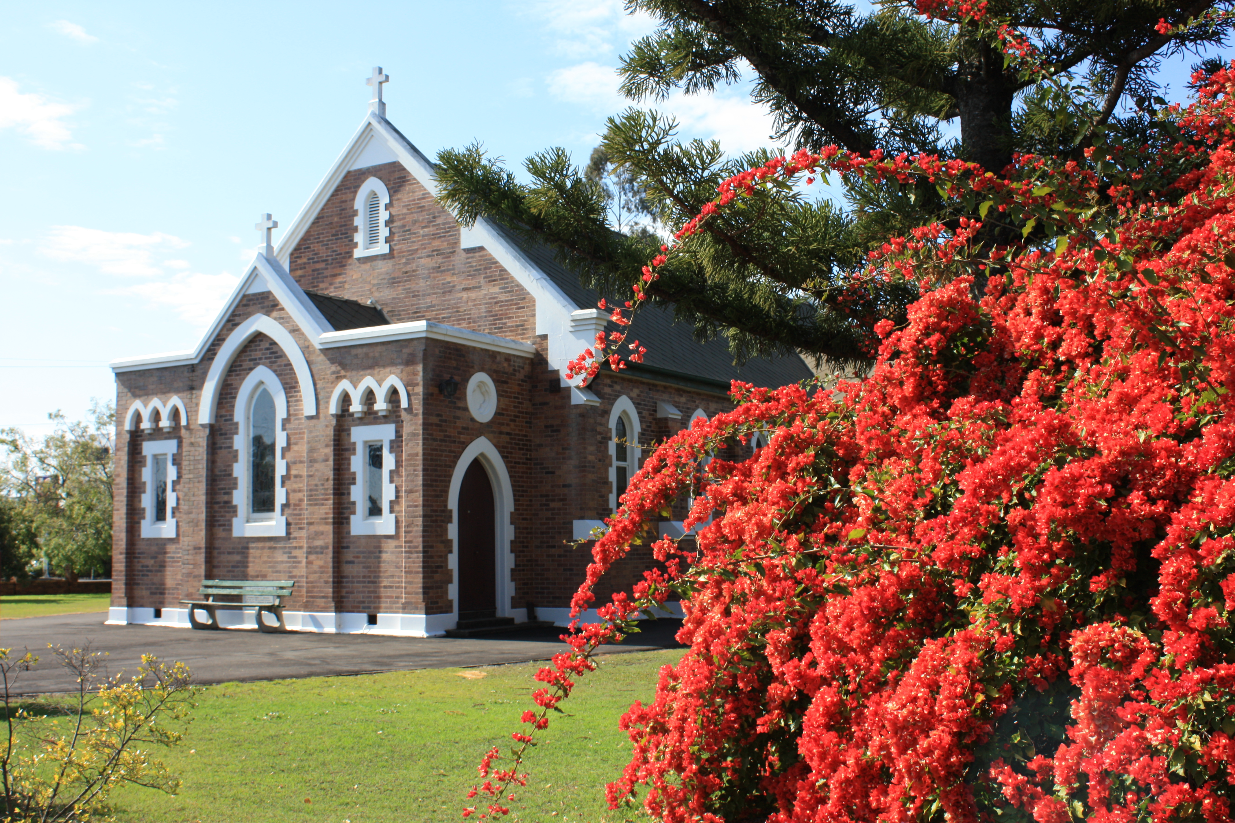 Pieces of stone from cathedrals around the world are set into the Sanctuary Wall. While the church was established in 1886, this building was completed in 1923.